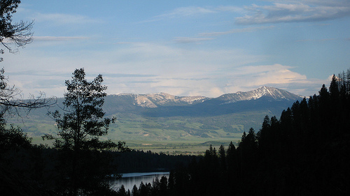 A view looking into Jackson Valley and Phelps Lake